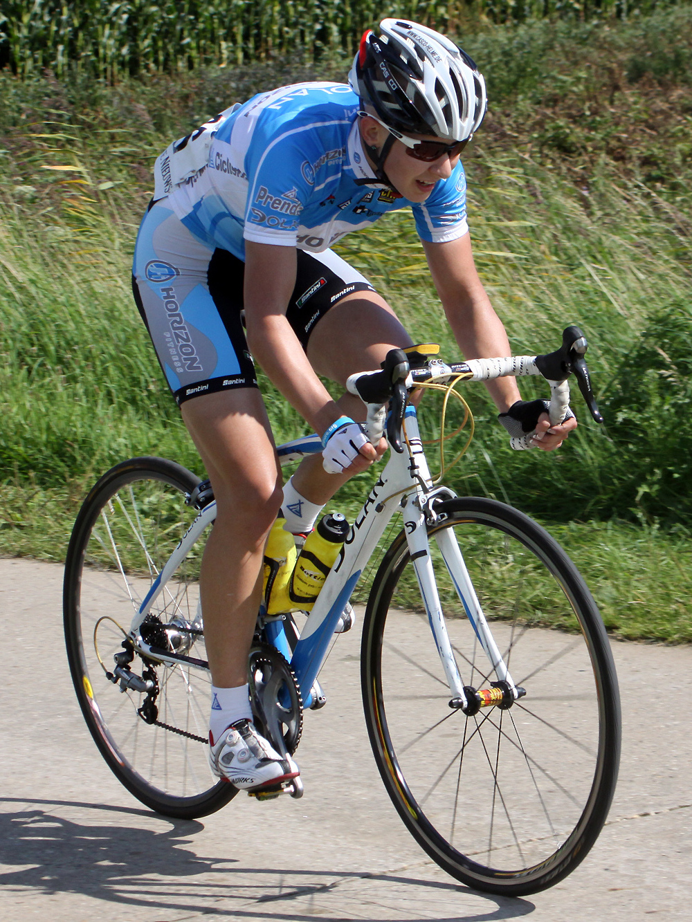 Joanna Rowsell - Sint-Gillis-Waas, Belgium - 2011